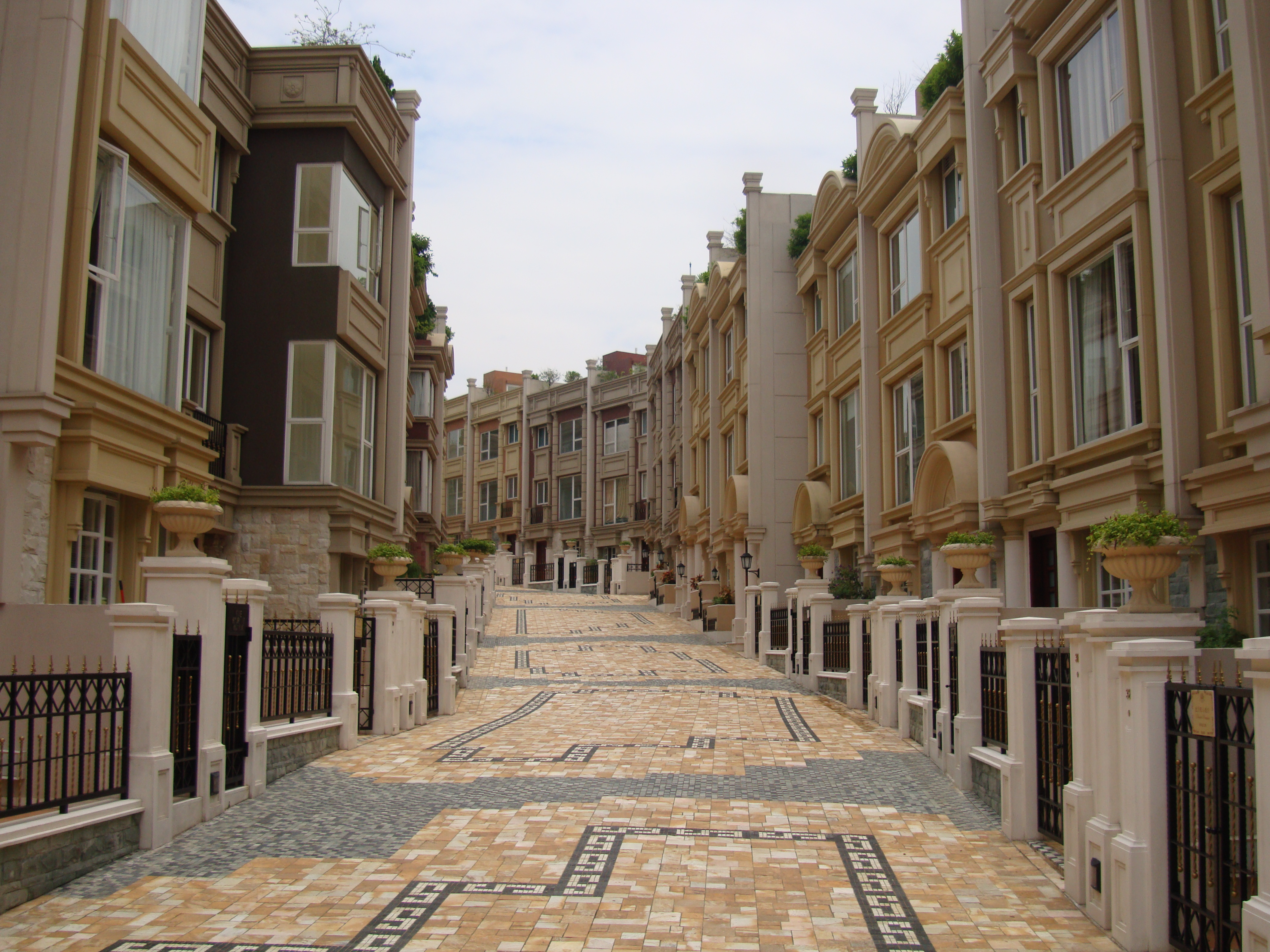 A section of Boulevard du Lac in The Beverly Hills, a private townhouse development in Tai Po, Hong Kong.